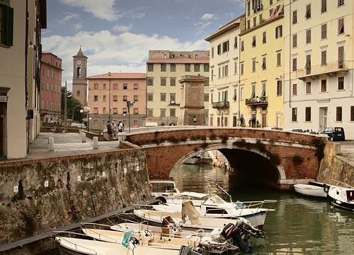 Picture taken by user:Idéfix, july 2003